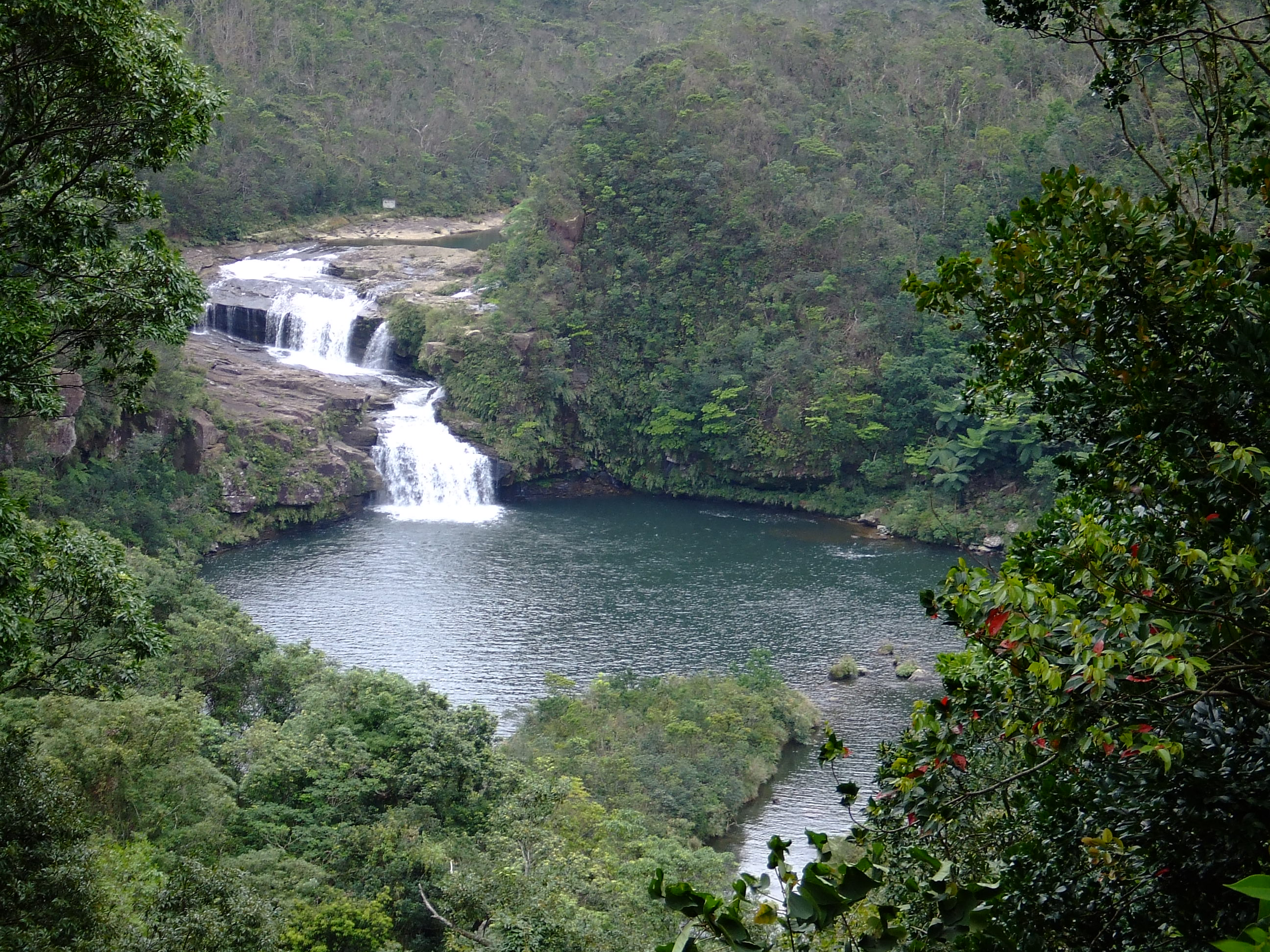 The Mariyudo waterfall, Iriomote, Okinawa. I took this photo with a digital camera on 5th April 2007.